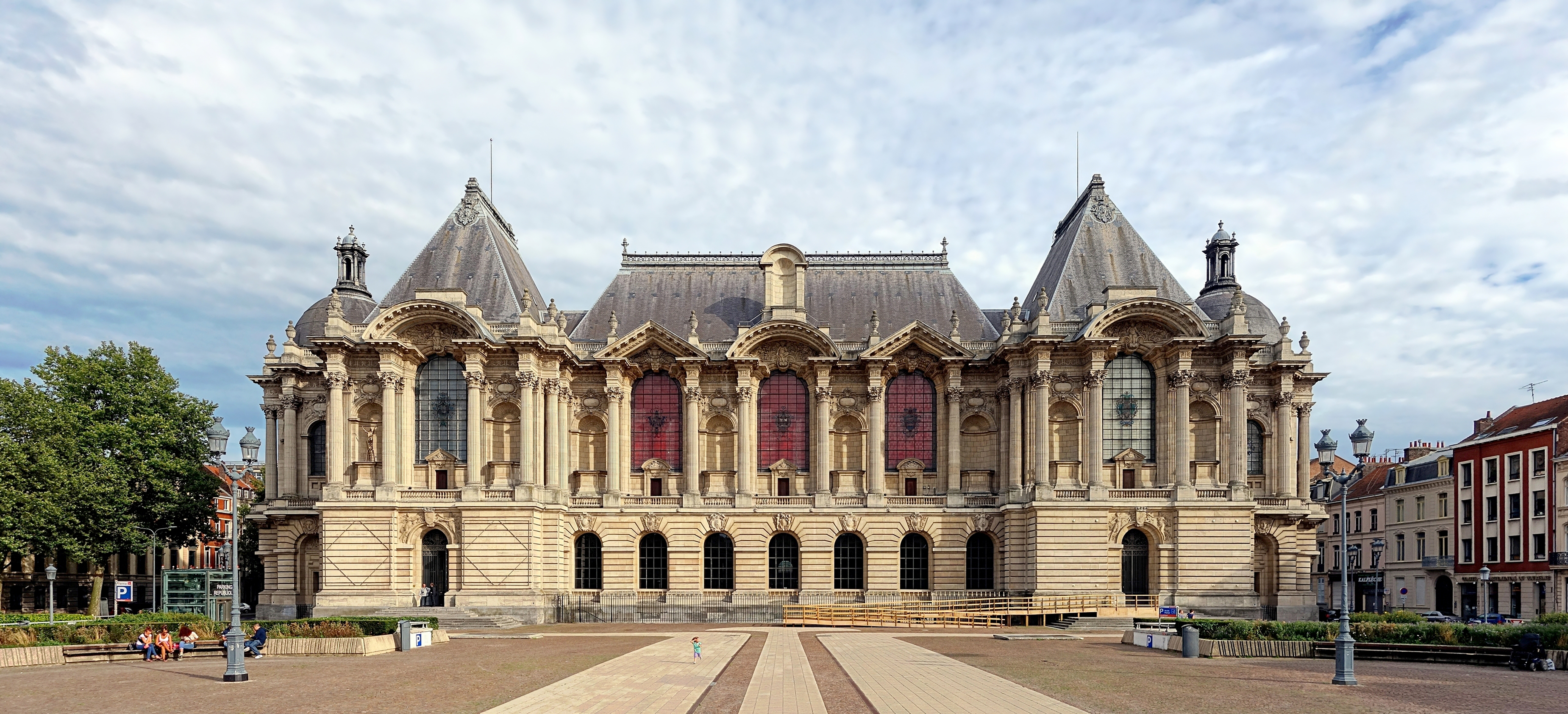 Palais des Beaux-Arts in Lille, France.